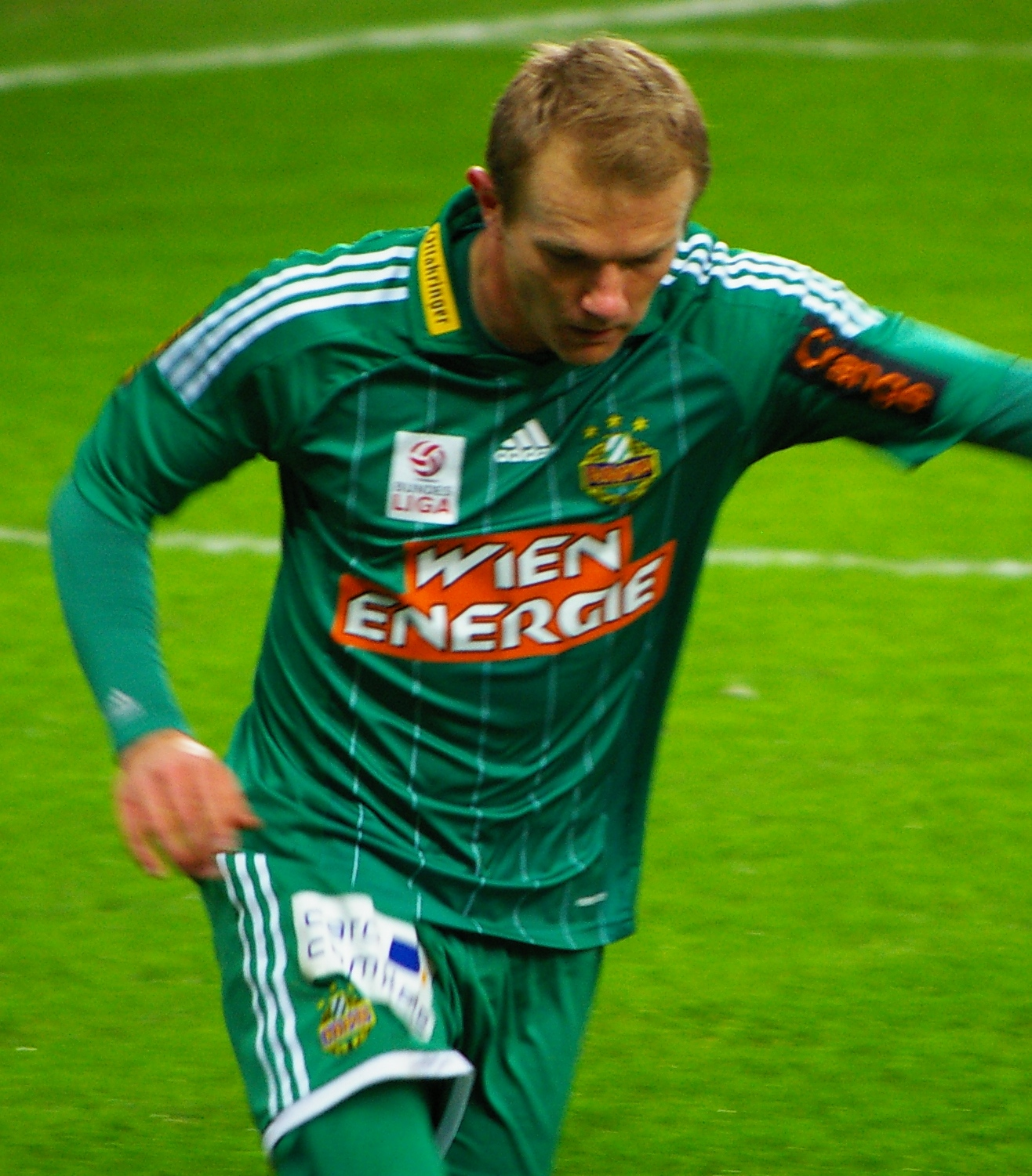 league match